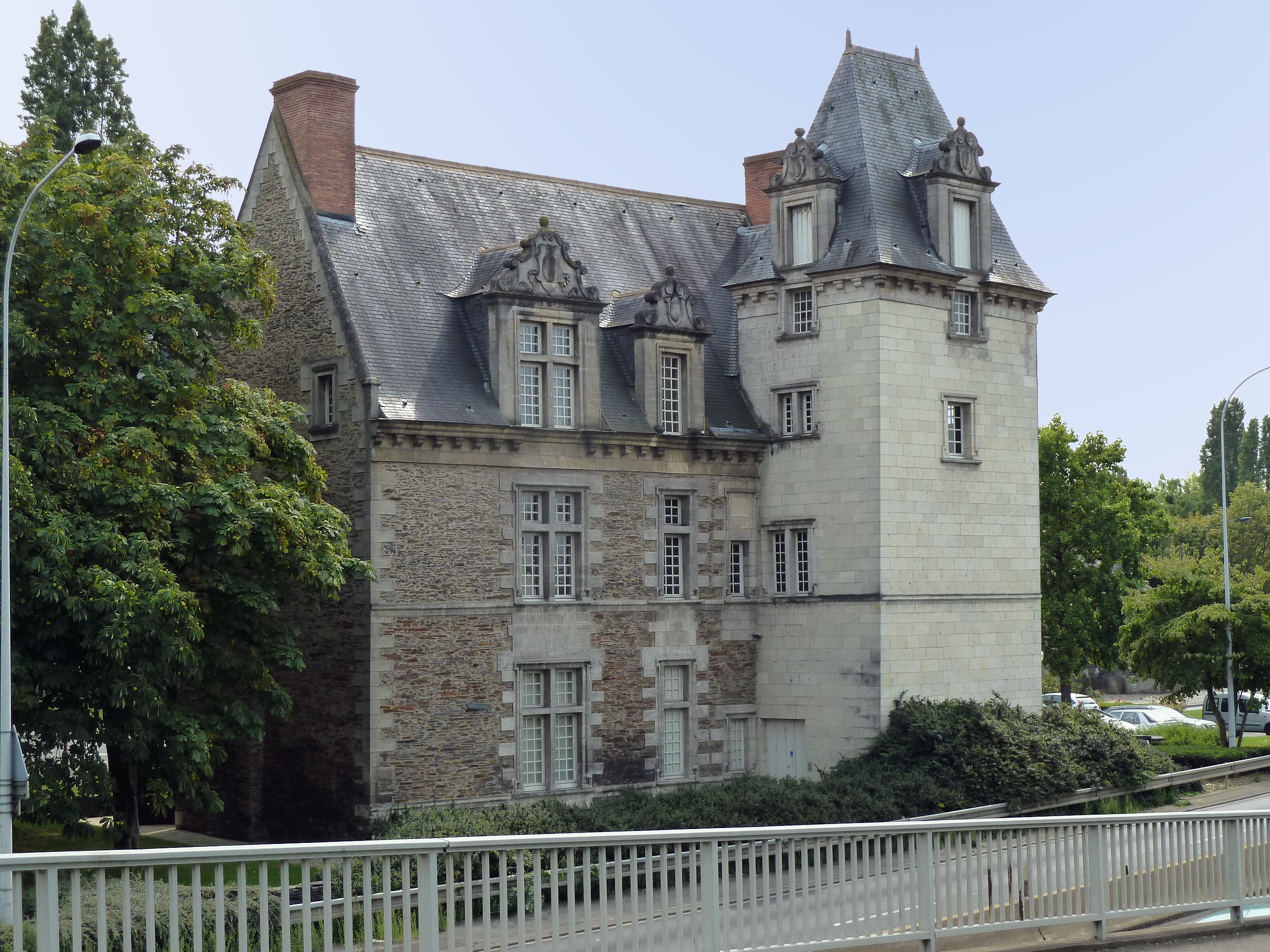 Hôtel du Roi de Pologne, Angers, Maine-et-Loire, Pays de la Loire, France.